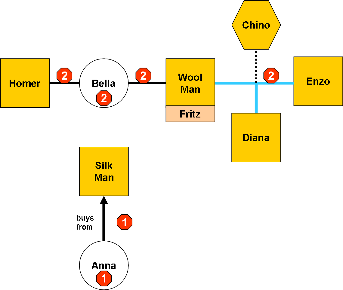 HUMINT network resulting from interview 2